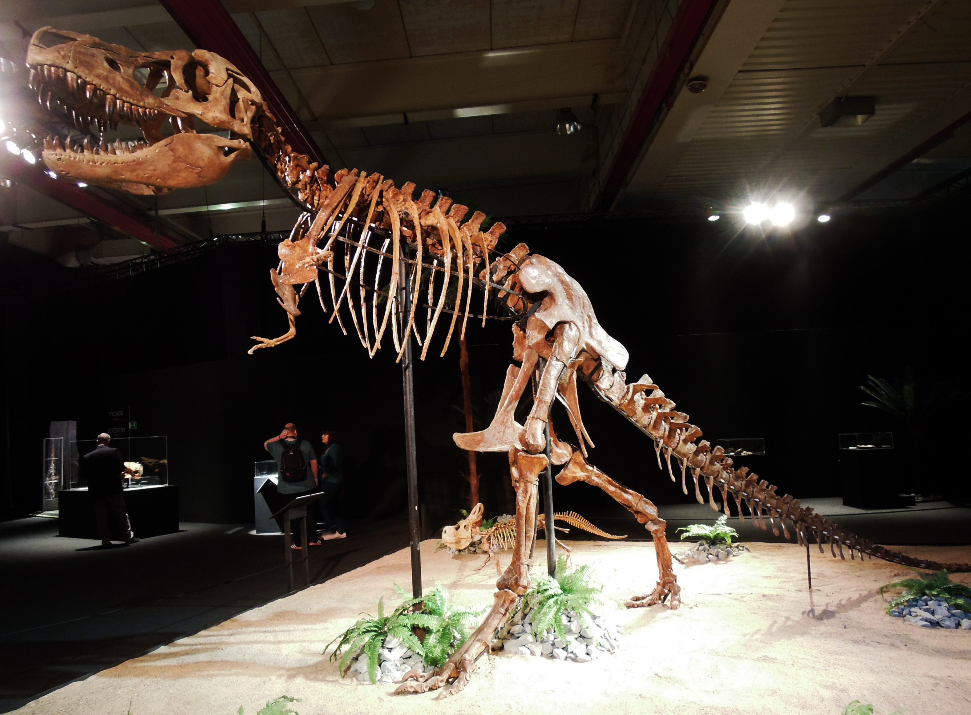 Tarbosaurus bataar, Dinosaurium exhibition, Prague, Czech Republic